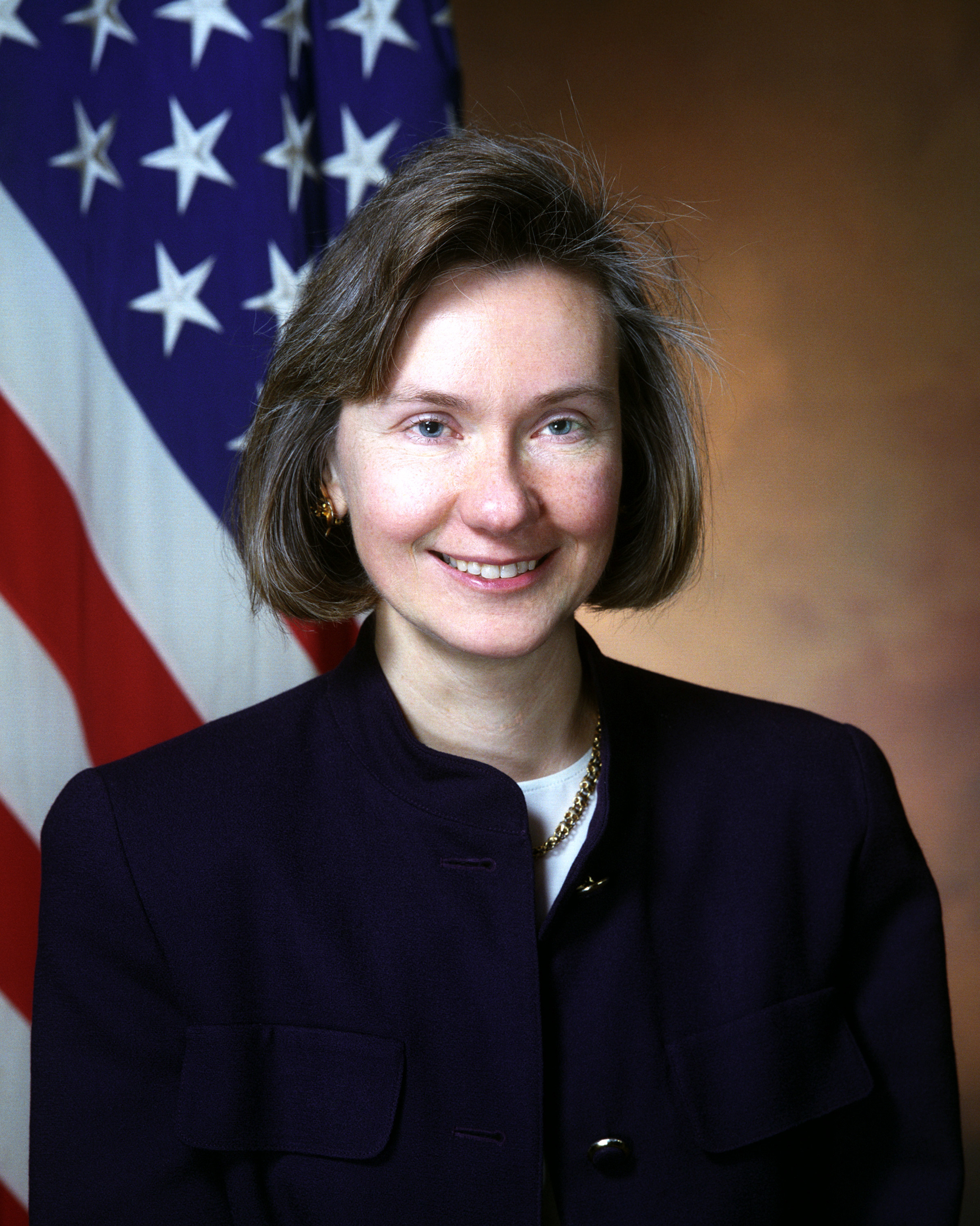 Portrait of DoD Ms. Judith A. Miller General Counsel, Office of the Secretary of Defense (U.S. Army photo by Mr. Scott Davis) (Released) (PC-192386) (Released to Public) Location: PENTAGON, DISTRICT OF COLUMBIA (DC) UNITED STATES OF AMERICA (USA)DoD photo by: SCOTT DAVIS, CIV Date Shot: 8 Nov 1994